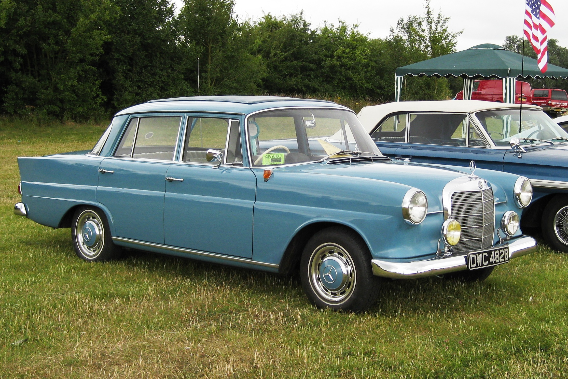 Mercedes-Benz 190 from 1964 looking well loved in 2009. Billericay.